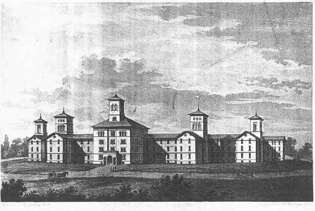 The Maryland Hospital for the Insane, later known as Spring Grove Hospital Center, was originally located in the City of Baltimore at the site that is today the location of the Johns Hopkins Hospital. The Maryland Hospital moved to Catonsville, at a site known as "Spring Grove" because of the presence of a number of springs and spring-fed ponds, around the time of the U.S. Civil War. This c. 1853 image is an architect's rendering of the "new" hospital that was planned for the current site in Catonsville.